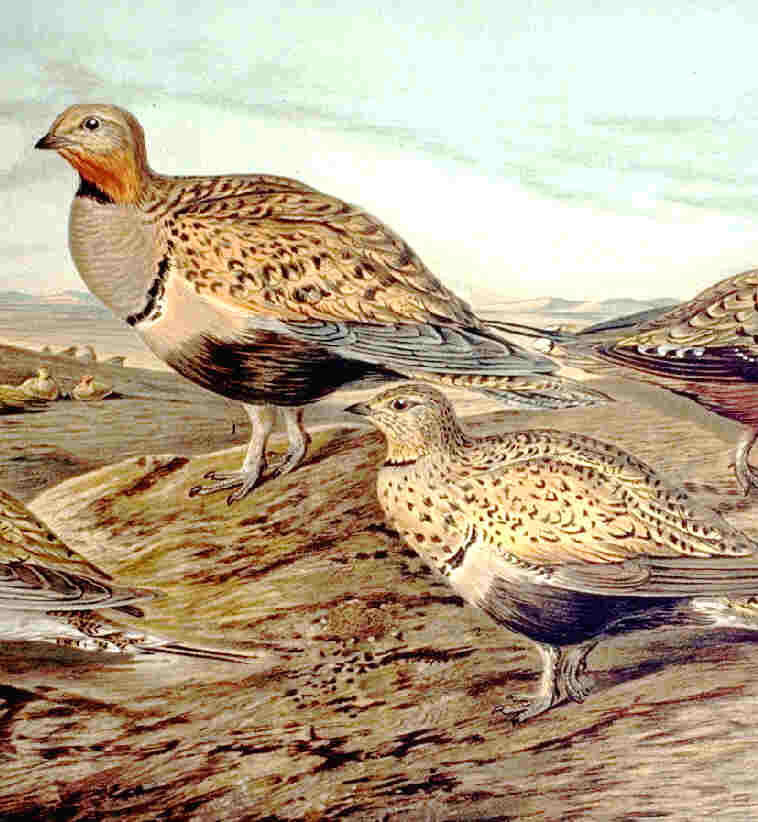 Male (up) and female of Black-bellied Sandgrouse Pterocles orientalis